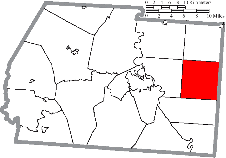 Map of the municipal and township boundaries of Ross County, Ohio, United States, as of the 2000 census, with the location of Harrison Township highlighted. Township borders are shown only in unincorporated areas in order to differentiate incorporated and unincorporated areas more clearly.